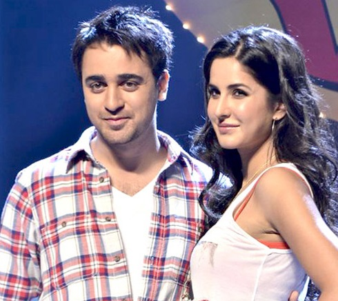 Imran Khan and Katrina Kaif at the Mere Brother Ki Dulhan audo release